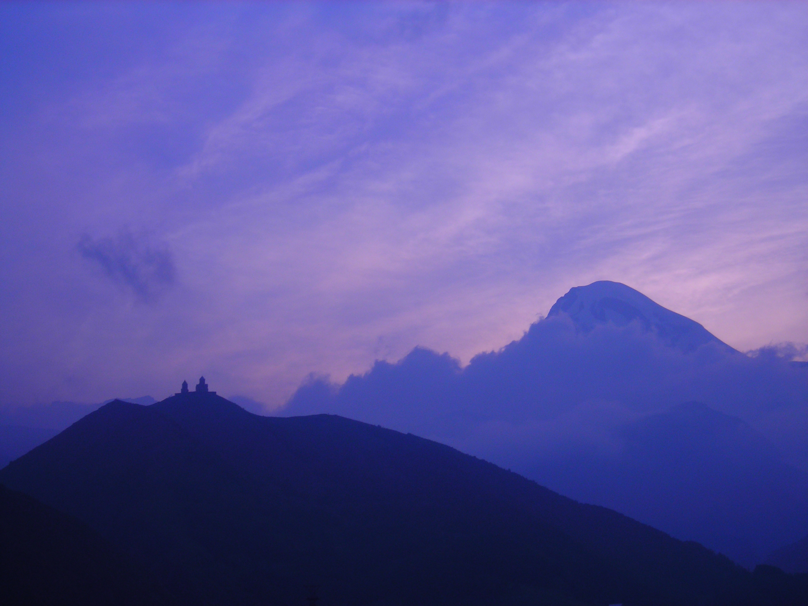 Often photographed, the Tsminda Sameba church overlooks the town of Kazbegi while Mt. Kazbek overlooks it.